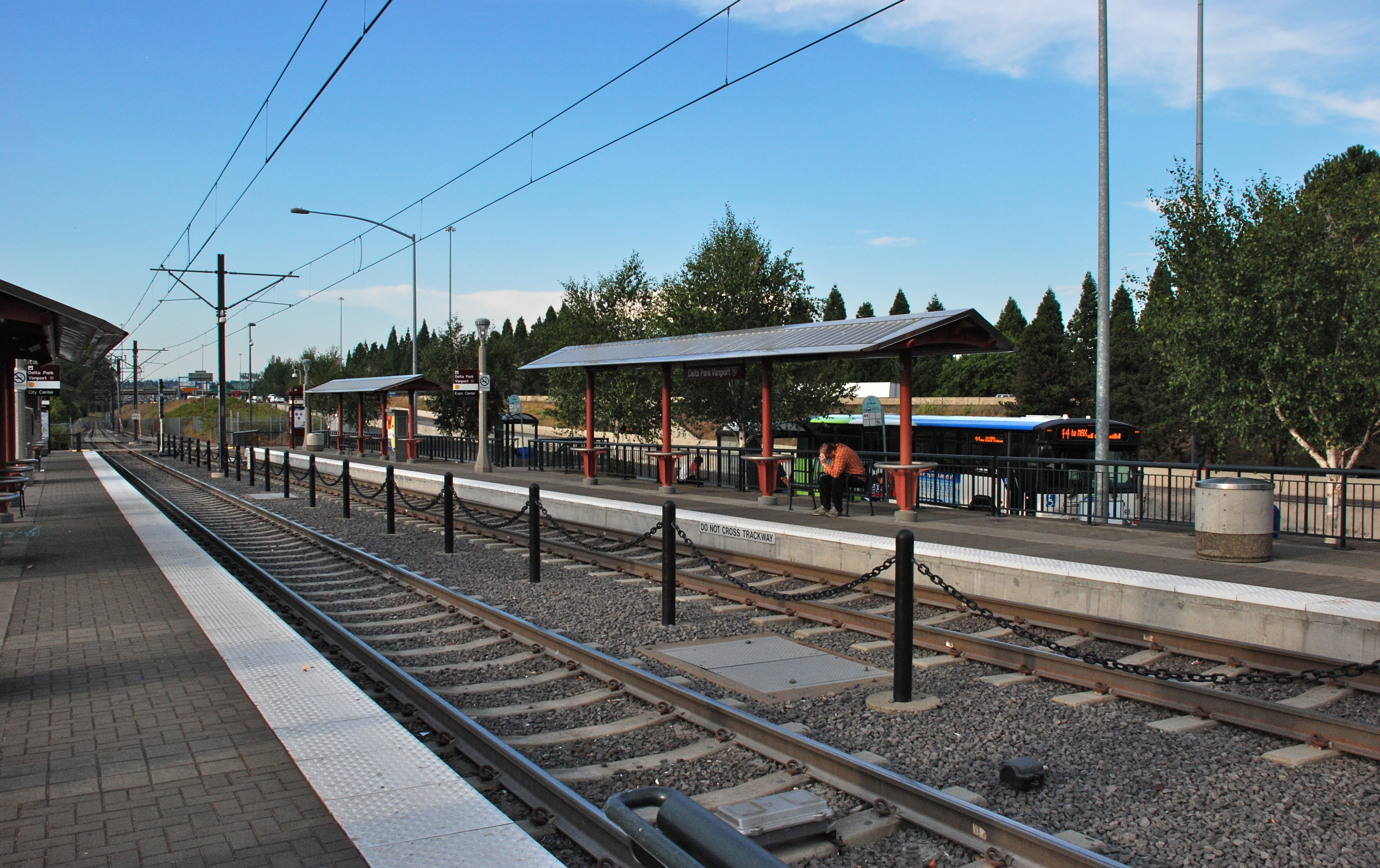 A view of the platforms of the Delta Park/Vanport MAX light rail station. In the background, a C-Tran bus is at the bus stop/transit center adjacent to the station, on C-Tran route 44.